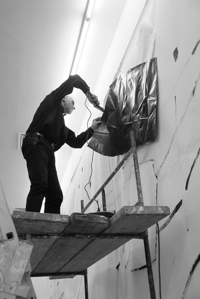 installation for exhibition, Gallery Atlas Sztuki, Lodz, Poland